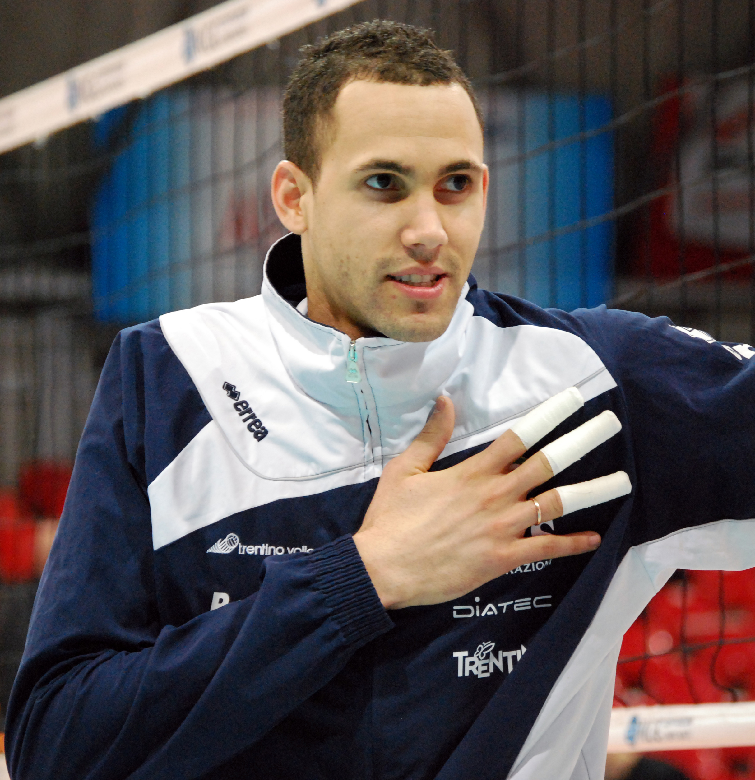 I took this photo during a volleyball match in Piacenza